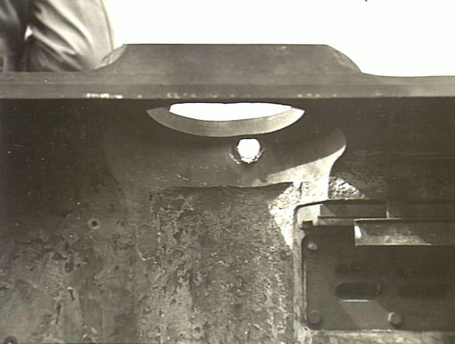 Captured Japanese Type 41 Mountain Gun fire test. A HEAT round penetration holes. At the frontal armour of a disabled Matilda II tank from a range of 150 yards (137.16m) during tests arranged by the Australian army operational research section. April 6, 1944, New Guinea.